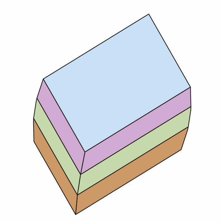 Drawing of a krettnichite crystal with crystal forms {001}, {111}, {332} and {331}; reference: J. Mandarino (2001), The Canadian Mineralogist vol. 39, p. 1484